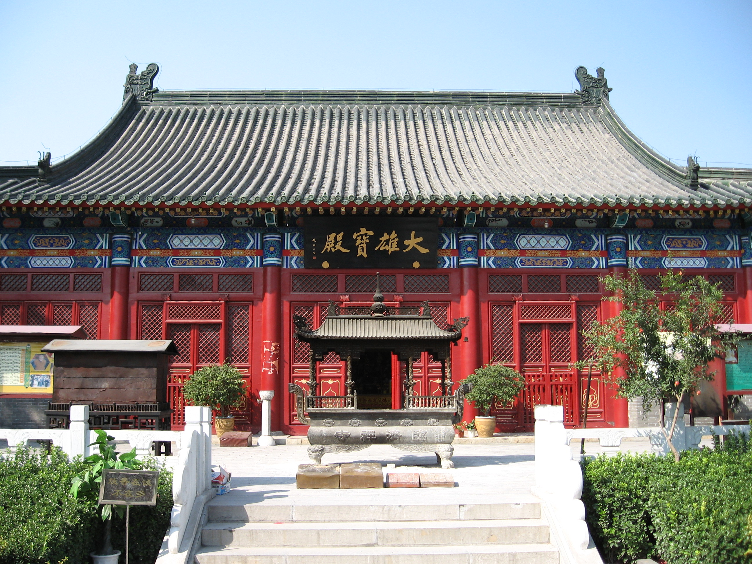 The Mahavira Palace of Linji Monastery Zhengding Hebei,China.中国河北省正定临济寺大雄宝殿。